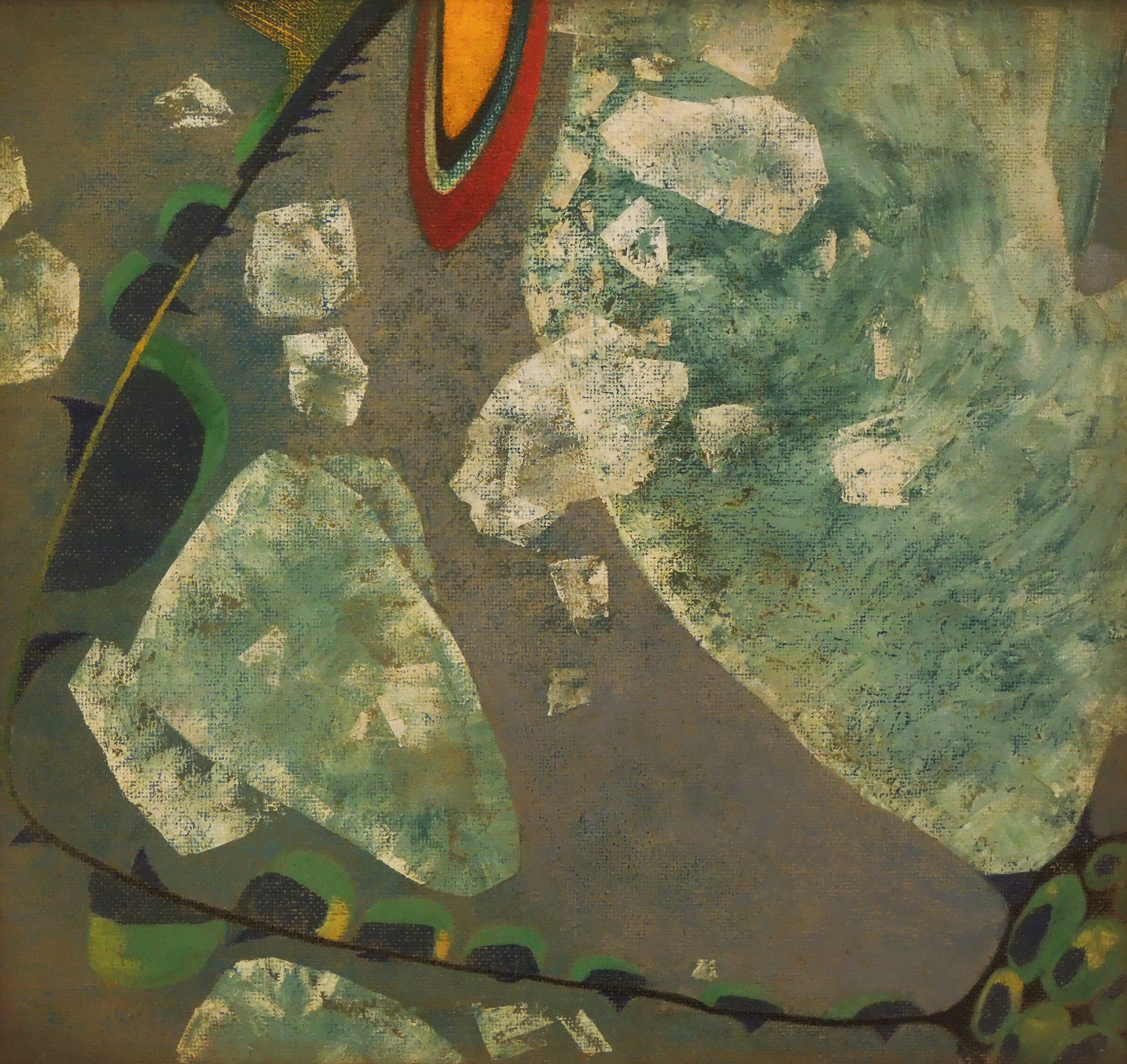 Vojtěch Preissig - Peacock Feather, 1936, mixed media, masonite